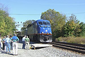 Southbound Piedmont arriving at the station platform